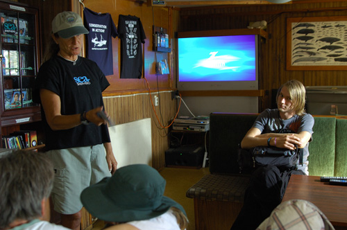 A wildlife advocate during an education session on board RV Farley Mowat at Docklands, Melbourne, Australia during the 2nd tour of this ship.